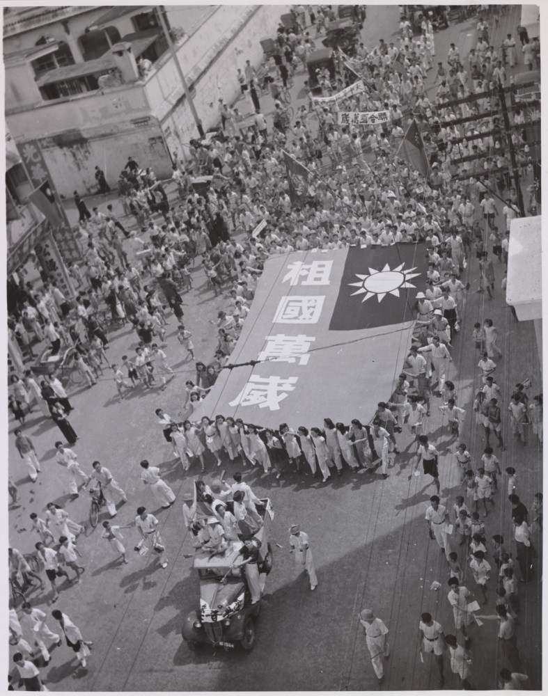 Chinese community in Singapore with celebration banners (Flag of Republic of China) in the city streets. More Information